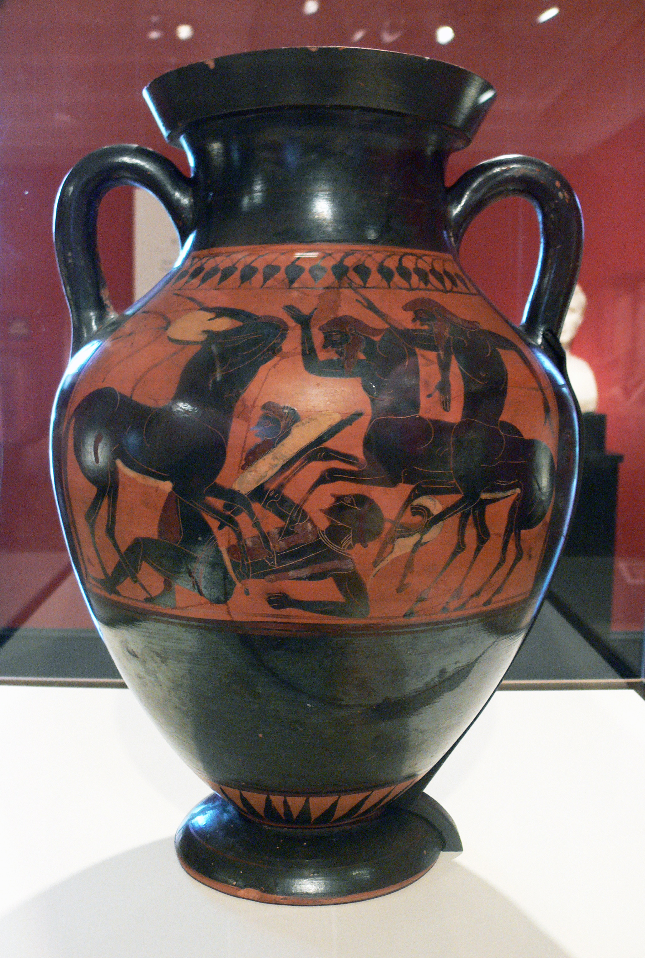 Storage jar with a battle of Lapiths and Centaurs.